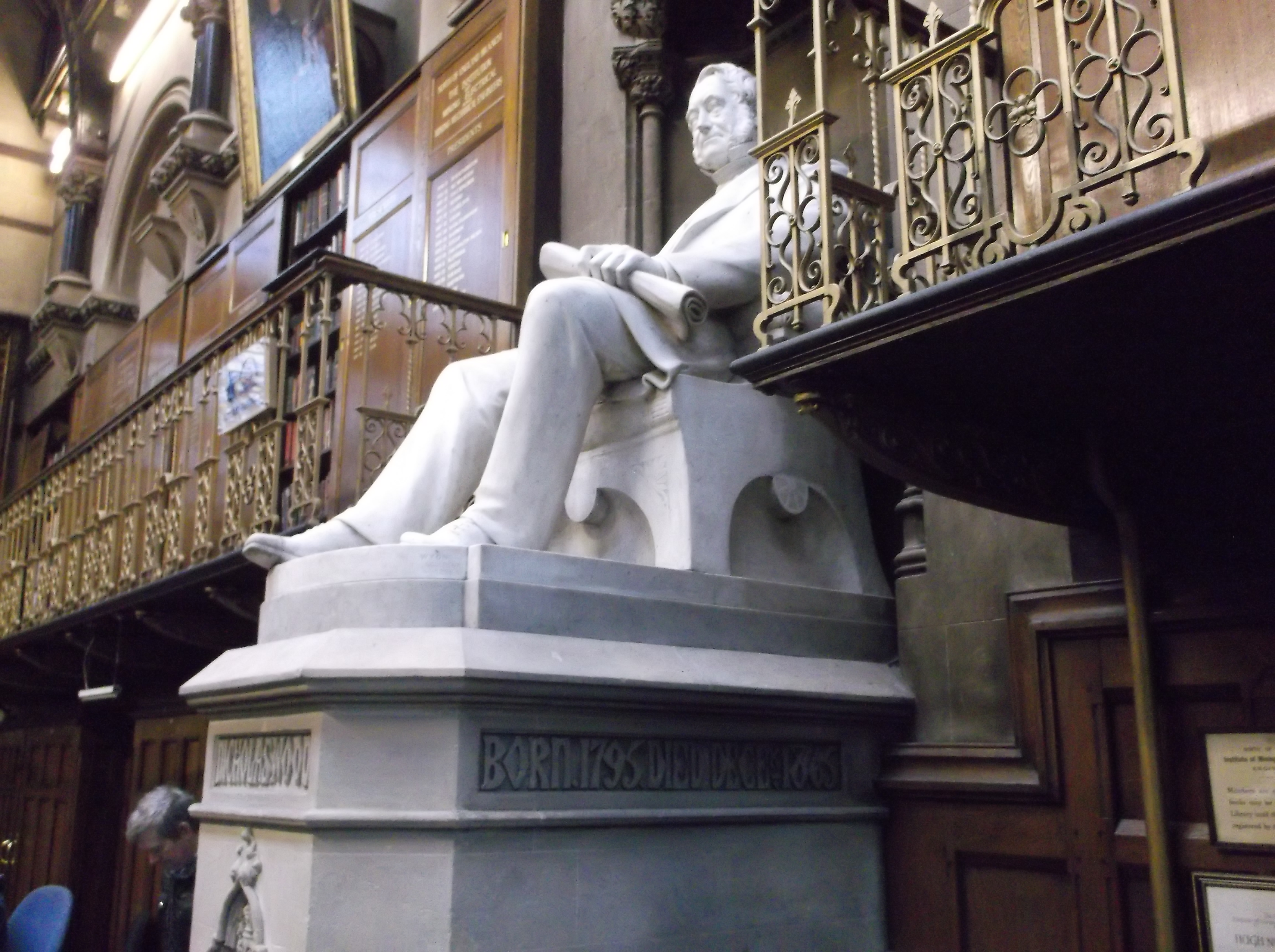 Neville Hall and Wood Memorial Hall, Newcastle upon Tyne; statue of Nicholas Wood (founder and first president of the North of England Institute of Mining and Mechanical Engineers).